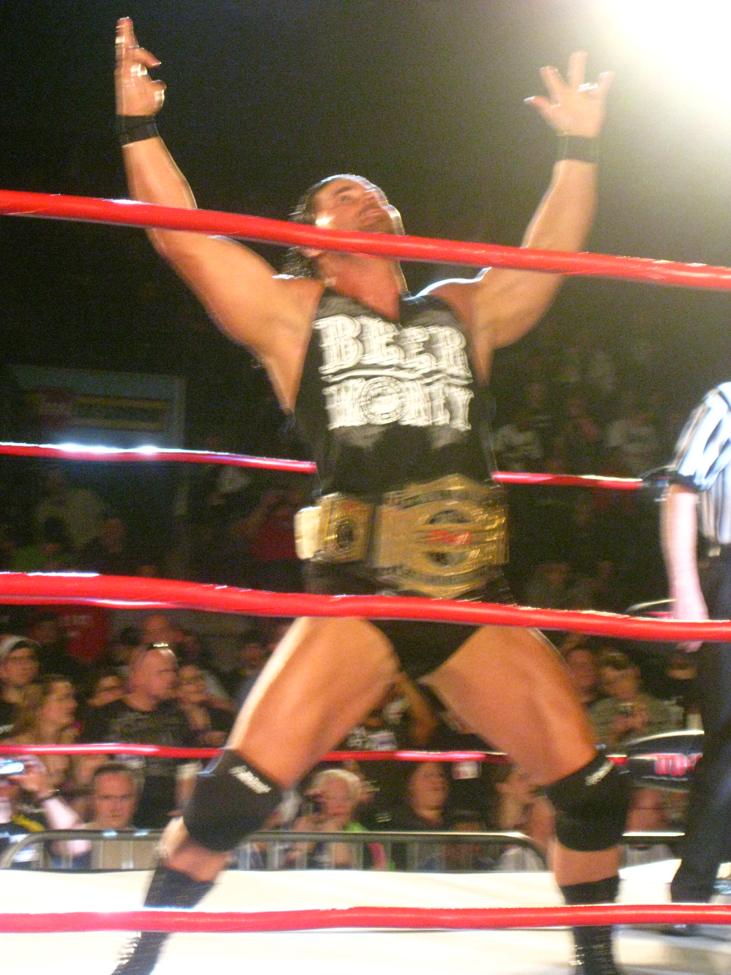 A TNA Live! Even at the ShoWare Center in Kent, WA. No PRO cameras were allowed so I had to put my Canon PowerShot SD1100 IS to work!